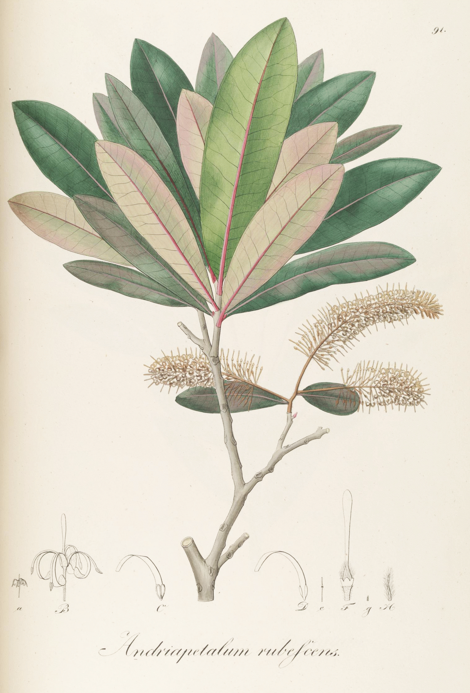 Plate from book